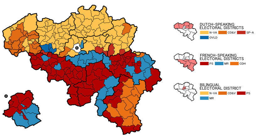 Electoral district map of the Belgian general election, 2010. Winning parties in electoral cantons (thinner line). The eleven Belgian electoral districts are accentuated with a thicker line. The Brussels-Capital Region, a part of the electoral district Brussels-Halle-Vilvoorde, is enlarged.